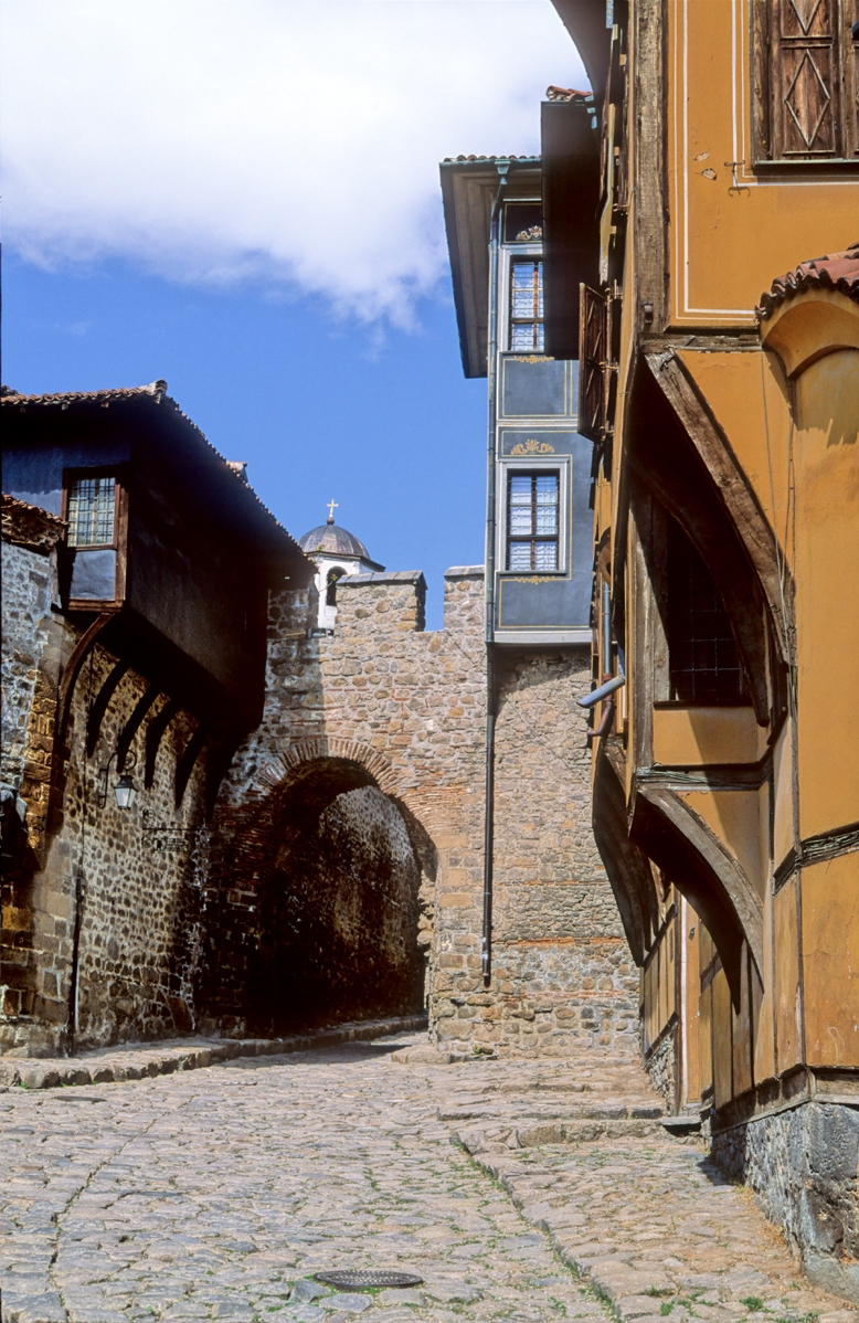 Street in Old Town Plovdiv, Bulgaria